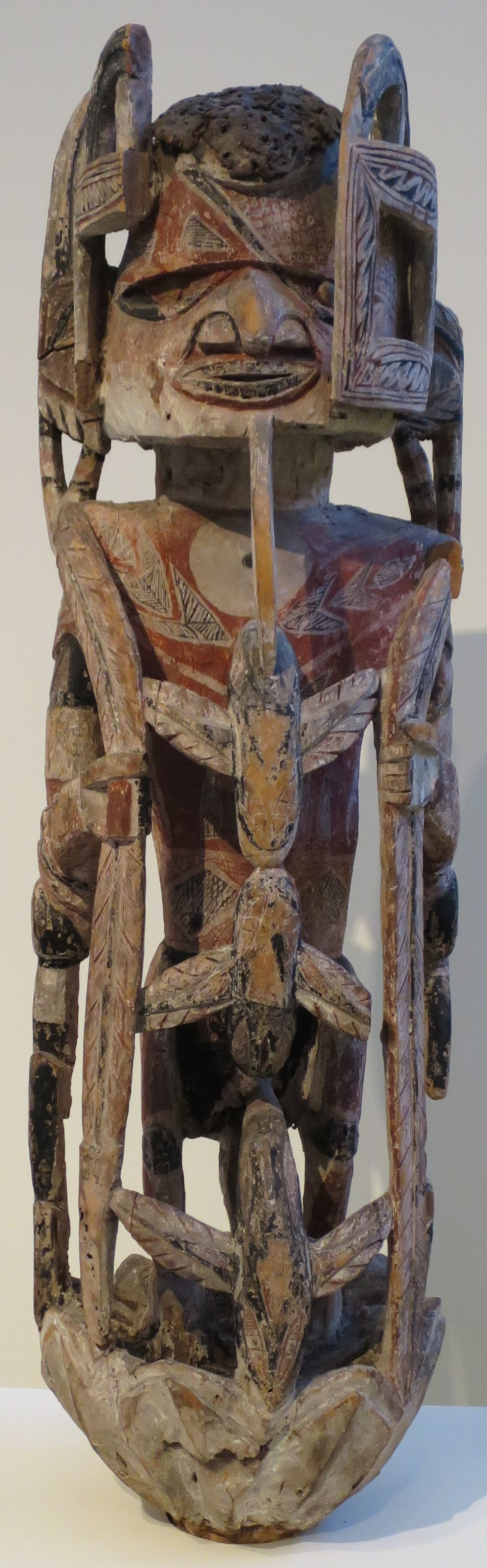 Funerary figure (malagan), New Ireland Island, Papua New Guinea, late 19th - early 20th century, carved wood, pigments and opercula, Honolulu Museum of Art, accession 4373.1